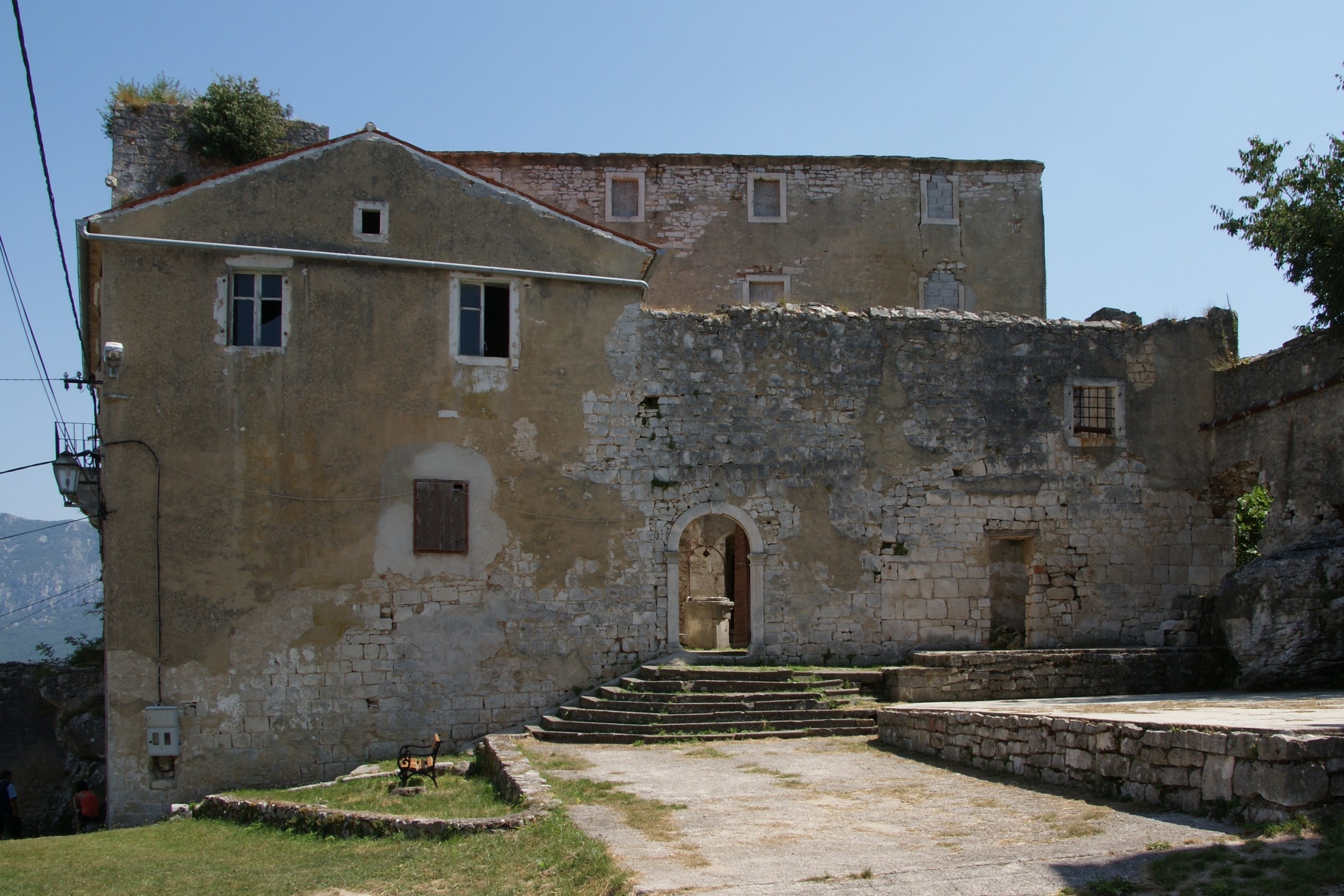 Kršan, Istria